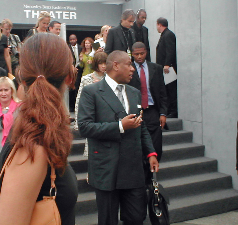 André Leon Talley